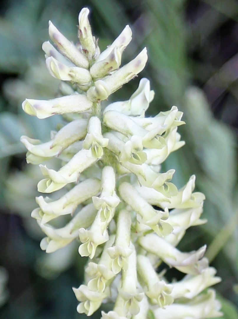 Wild licorice (Glycyrrhiza lepidota), closeup of white flowers. At 8,400 ft (2,600 m) along McGee Creek Trail at edge of John Muir Wilderness, Sierra Nevada, California.